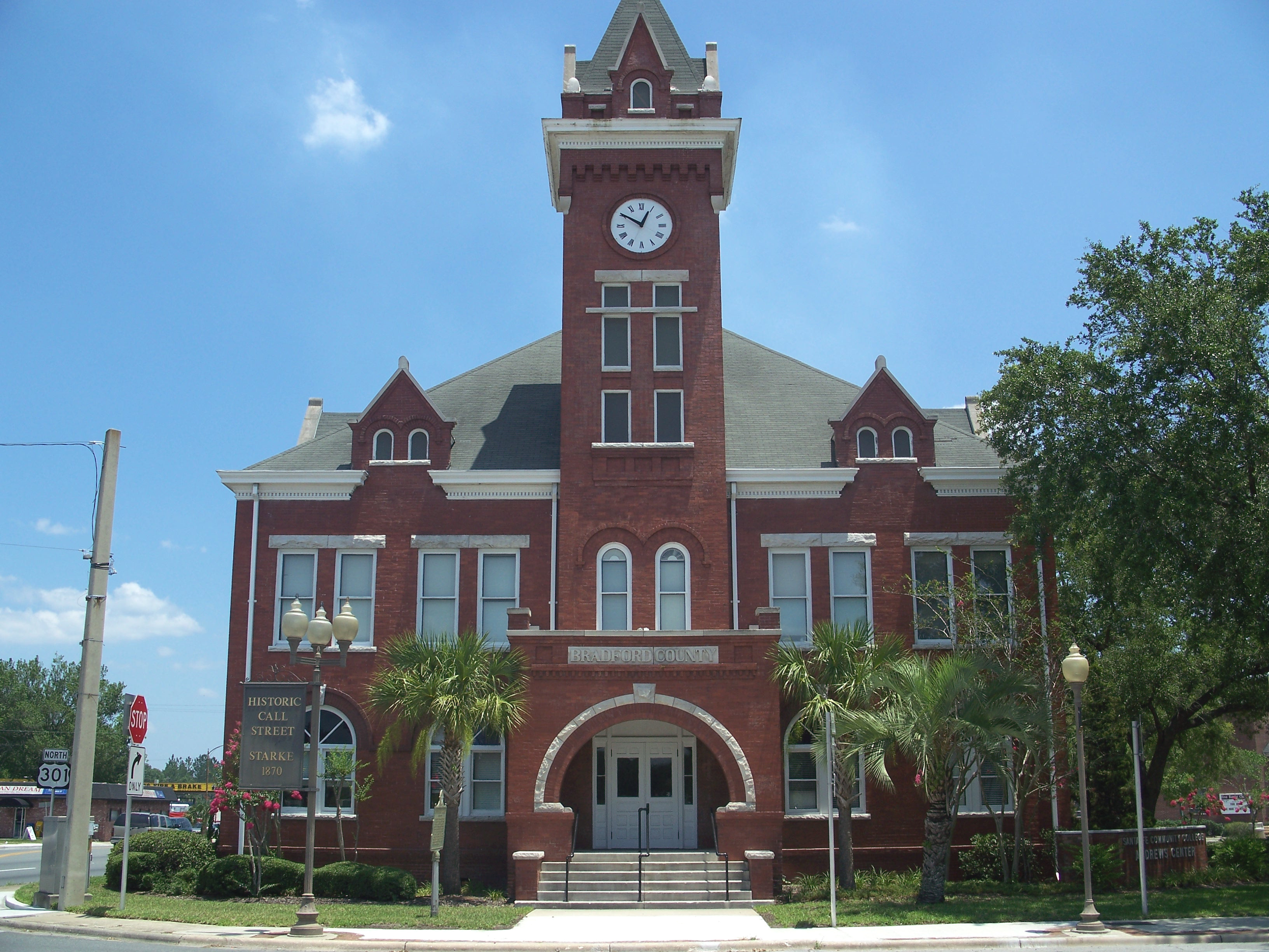 Old Bradford County Courthouse, now part of the Santa Fe Community College Starke Campus, in Starke, Florida